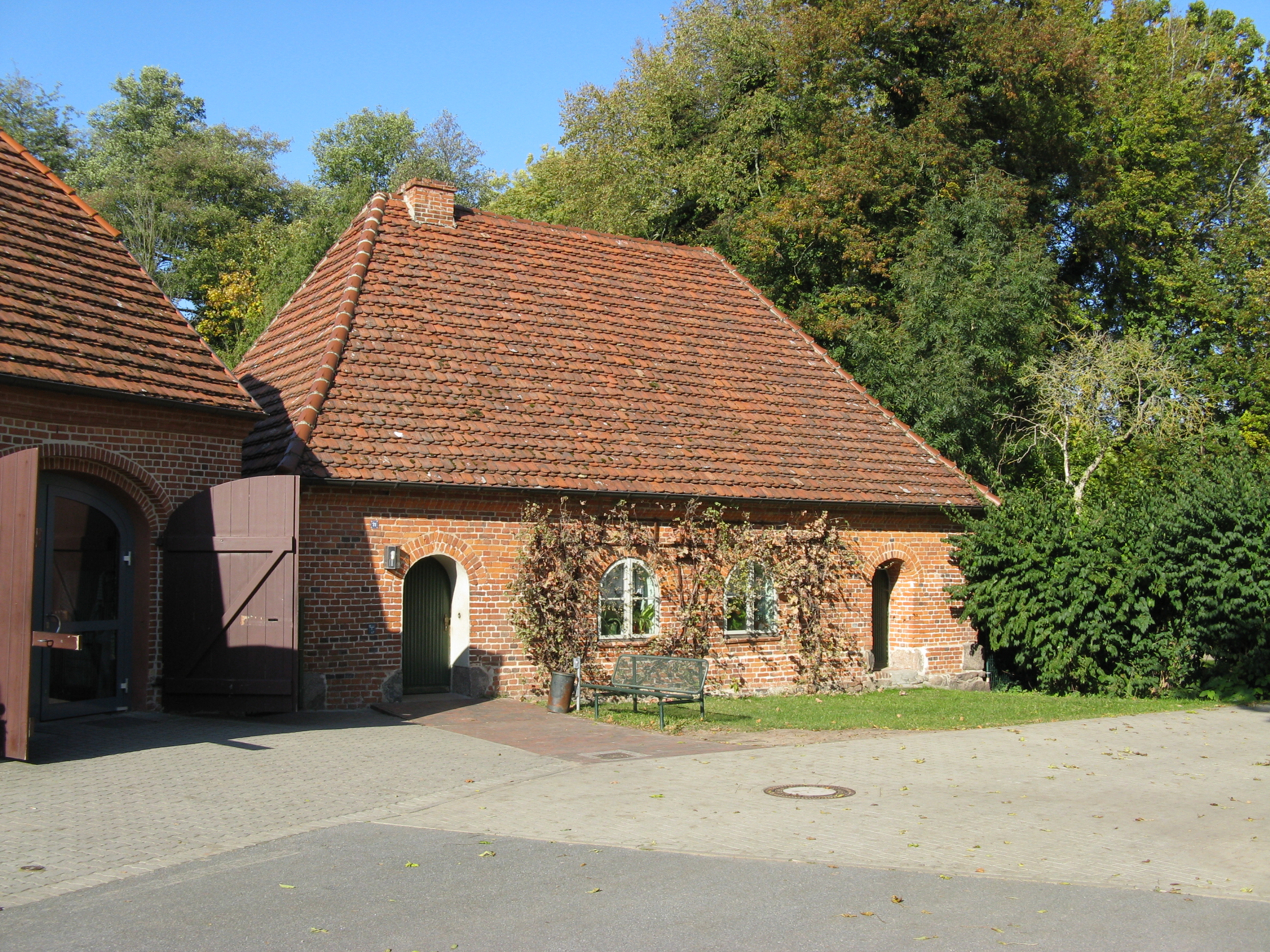 Gatehouse in the Monastery Dobbertin, disctrict Parchim, Mecklenburg-Vorpommern, Germany